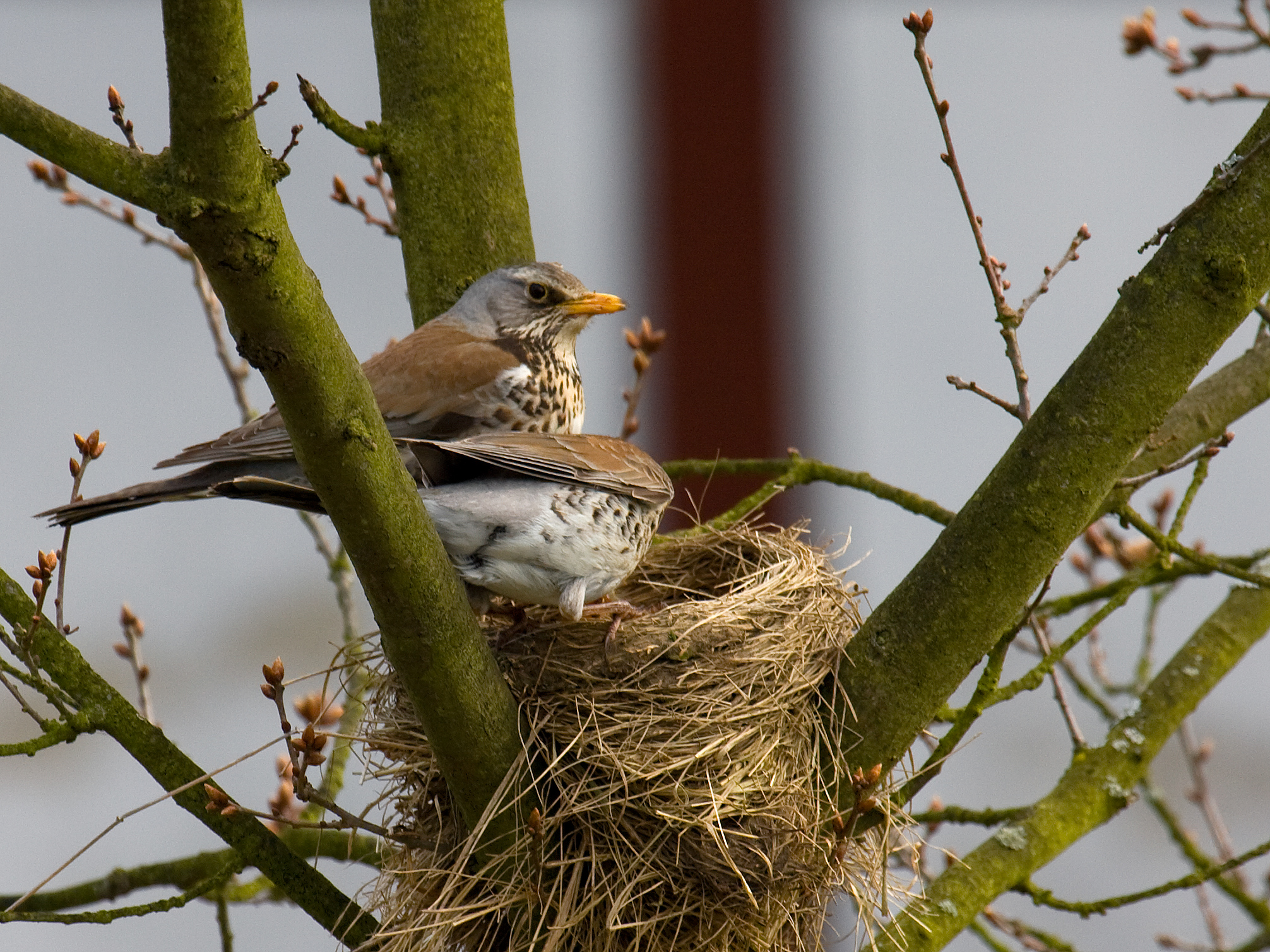 Fieldfare